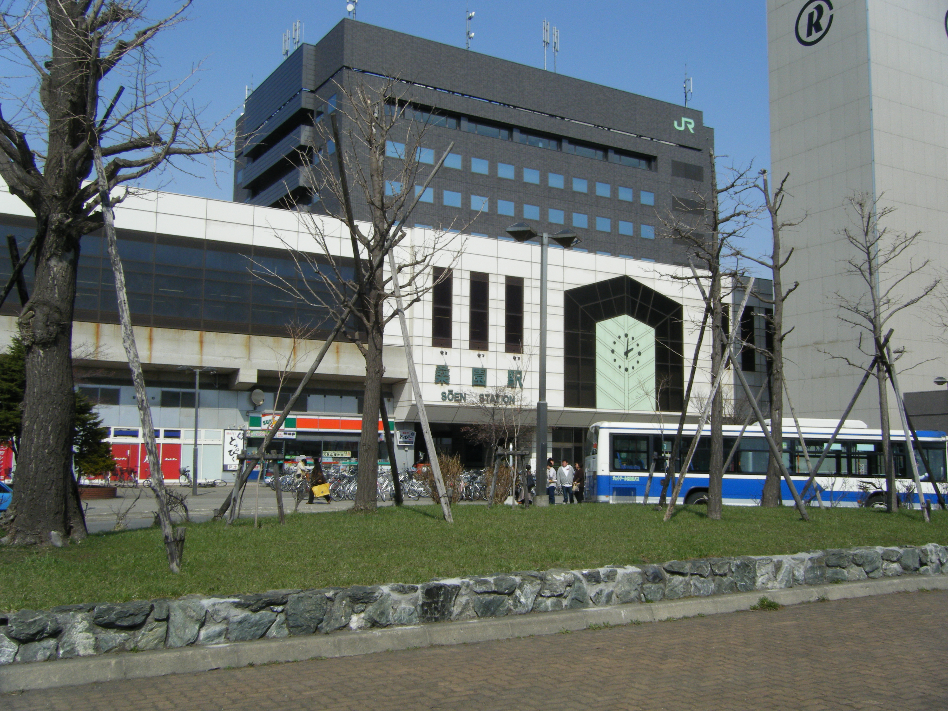 Soen Station on the Hakodate Main Line in Hokkaido